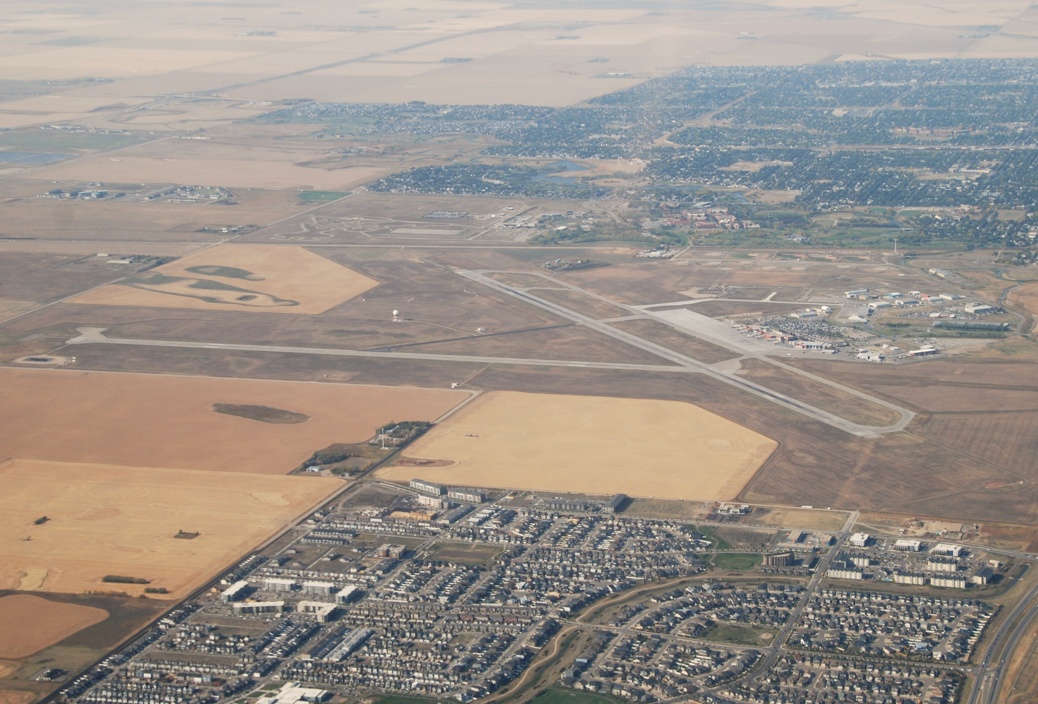 Aerial view of Regina International Airport (CYQR) in Regina, Saskatchewan.